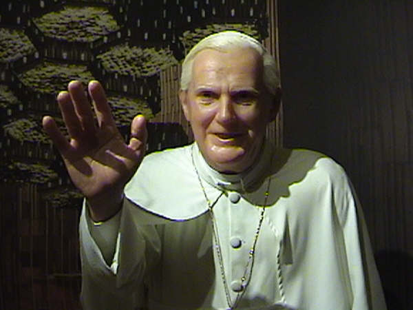 Pope Benedictus XVI